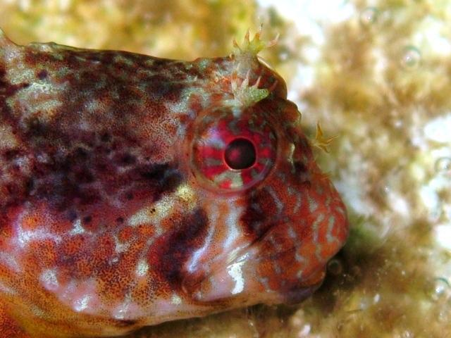 Head and cephalic tentacles of Parablennius zvonimiri photographed in Karpathos, Greece.